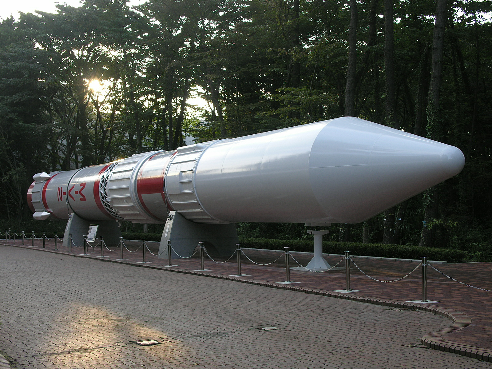 The flight model of M-V rocket, cancelled and now on exhibition, at Sagamihara Campus (ISAS/JAXA)